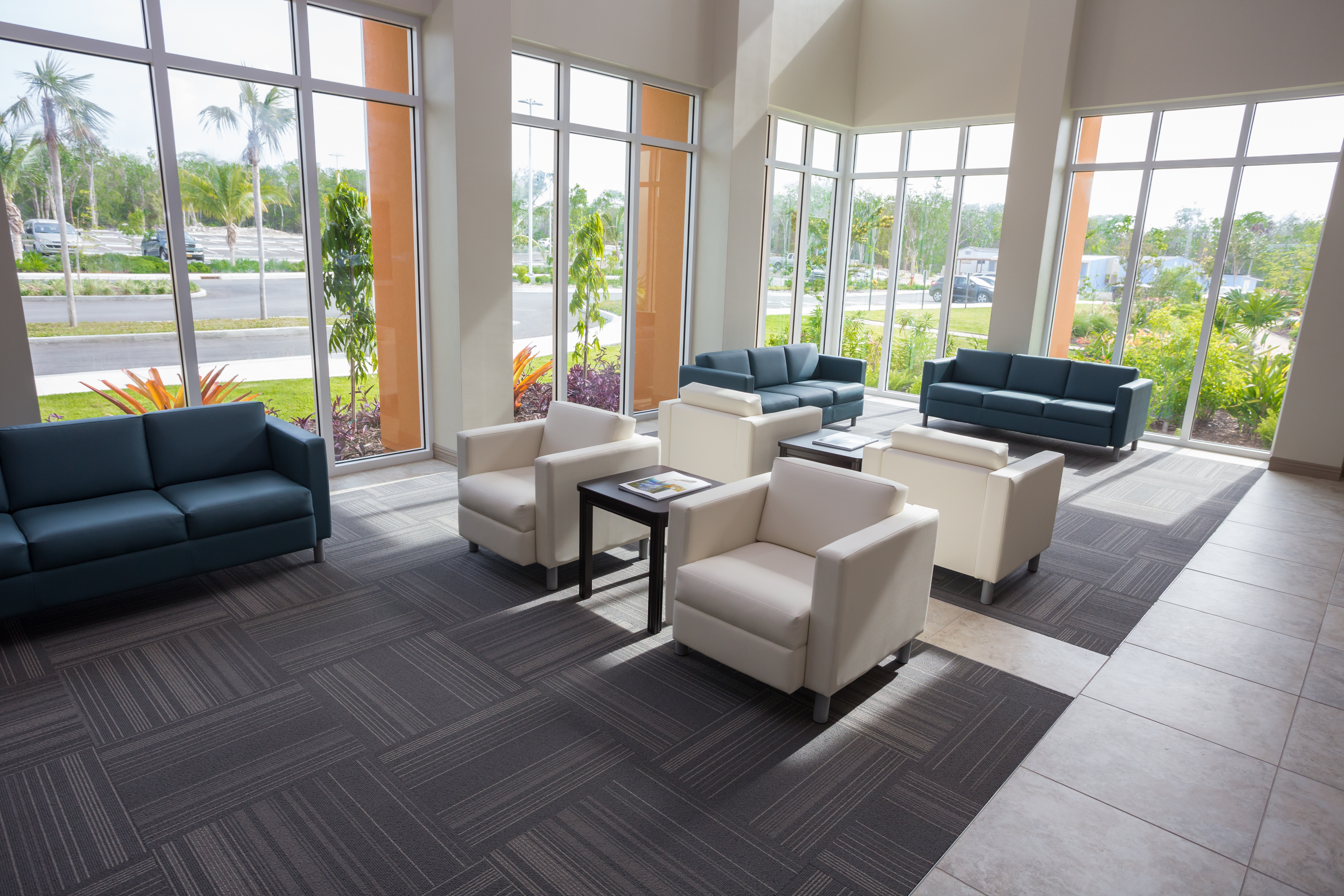 family and friends' waiting room with natural light